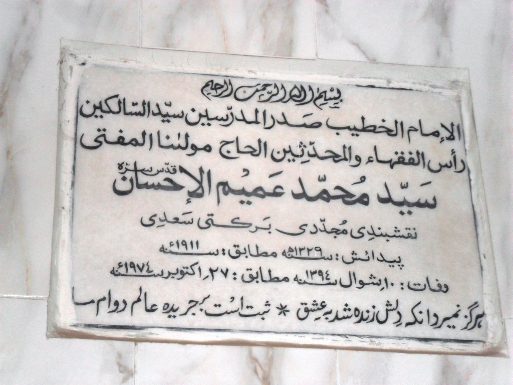 Makbara of Mufti Sayed Muhammad Amimul Ehasan Barkati Urdu